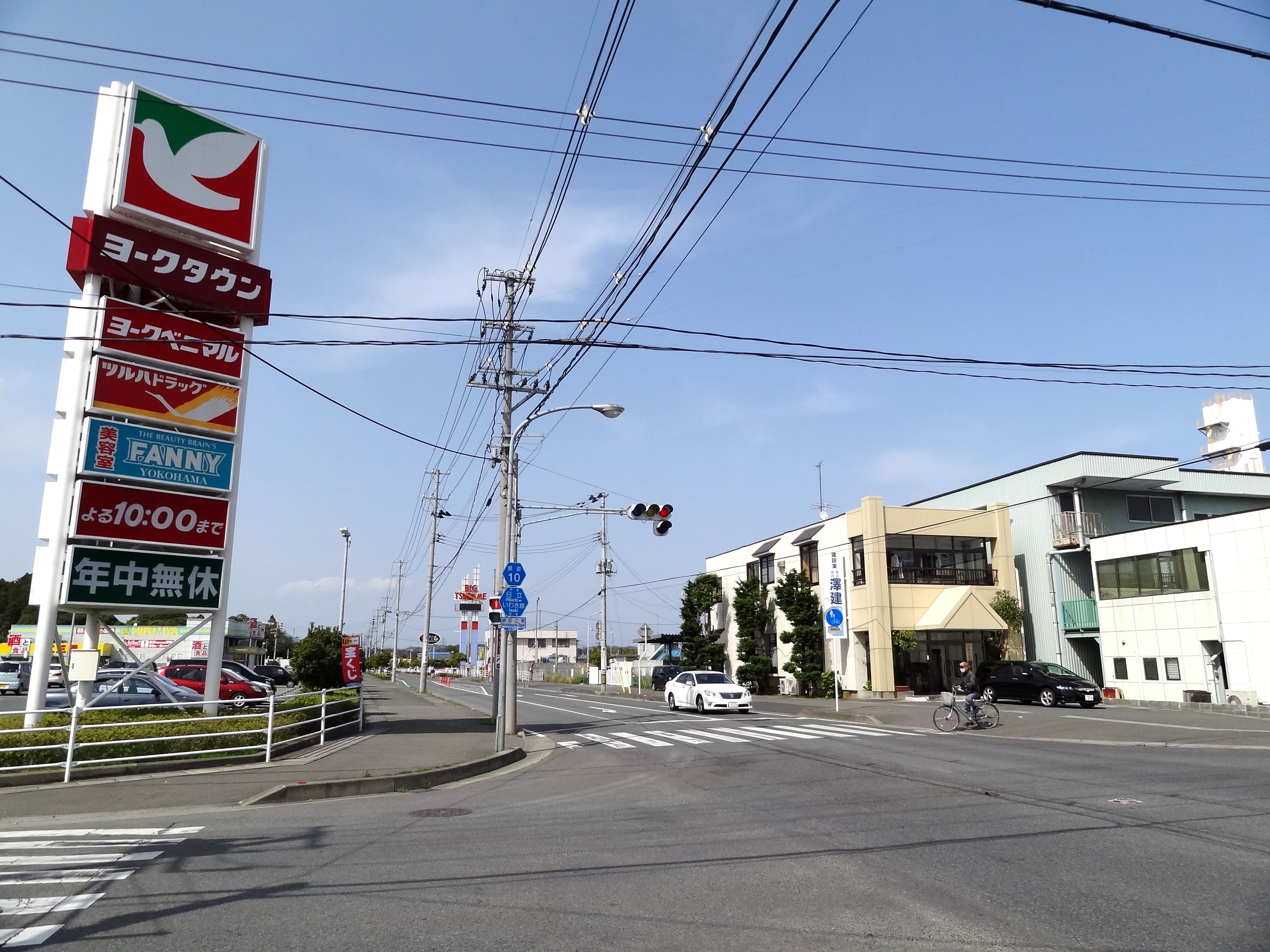 The Fukushima Prefectural Road Route 10 in Nishikimachi, Iwaki City